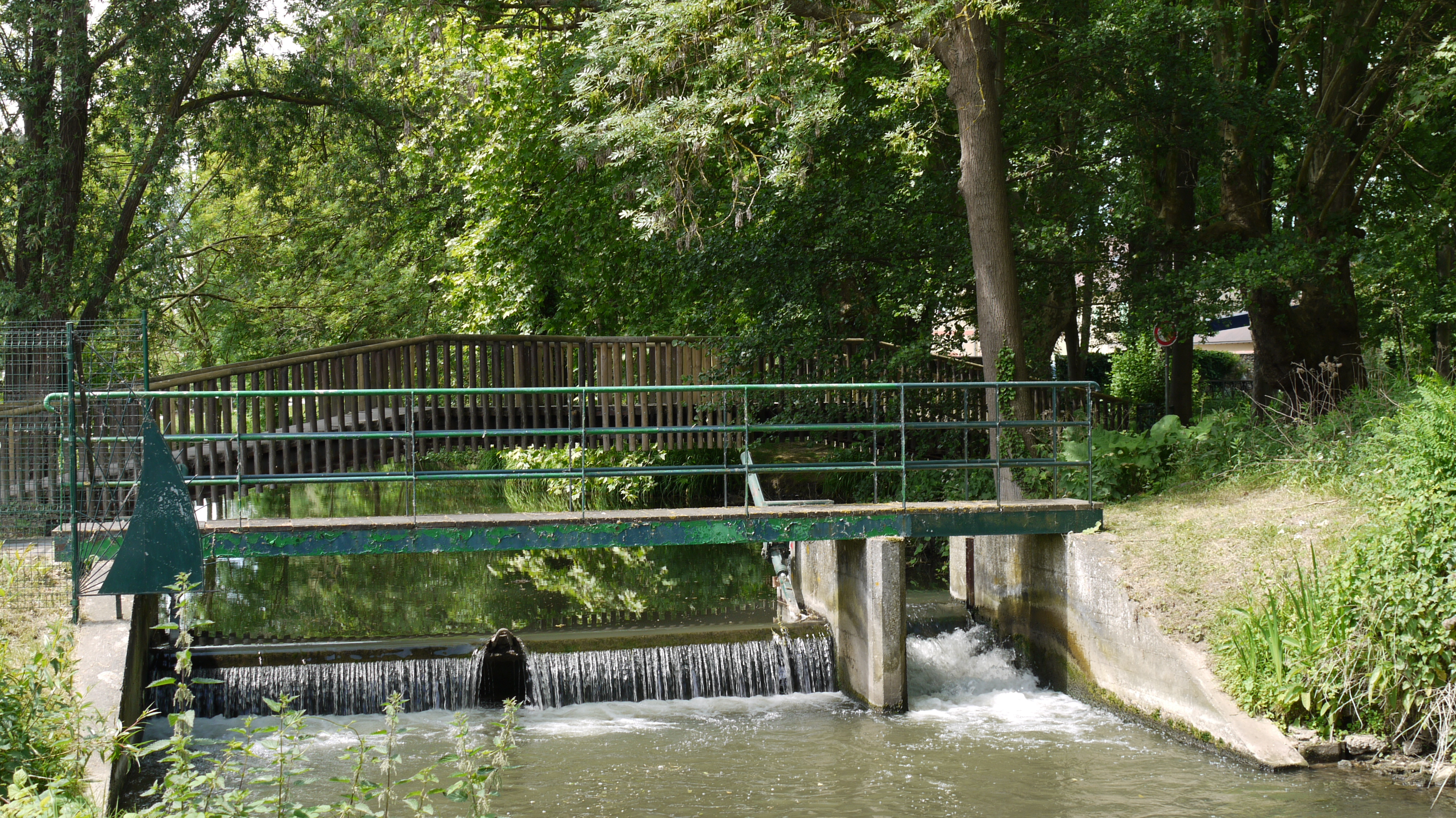 The river Orge, Saint Germain les Arpajon (France)